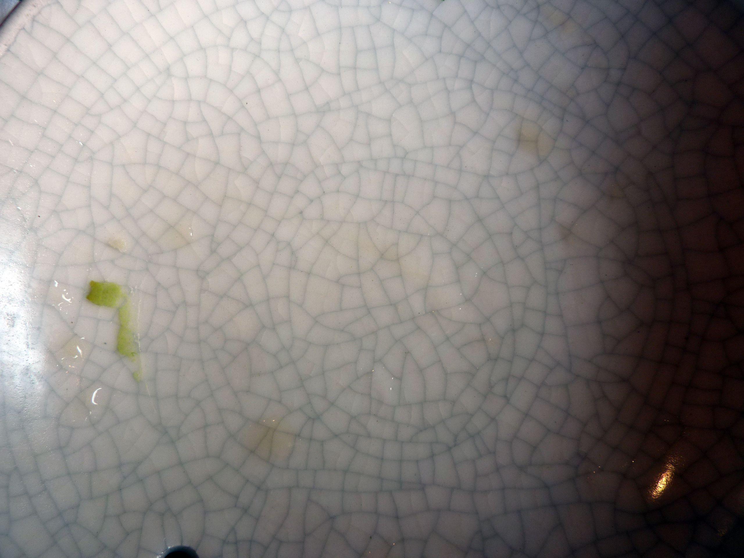 Ceramic glaze that has crazing cracks.